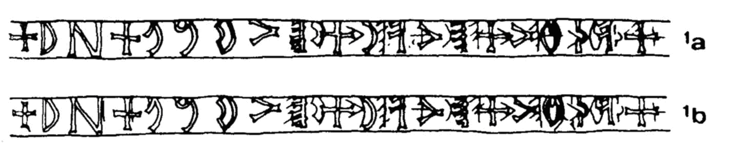 1980s drawing of an inscription, reprinted in 2011